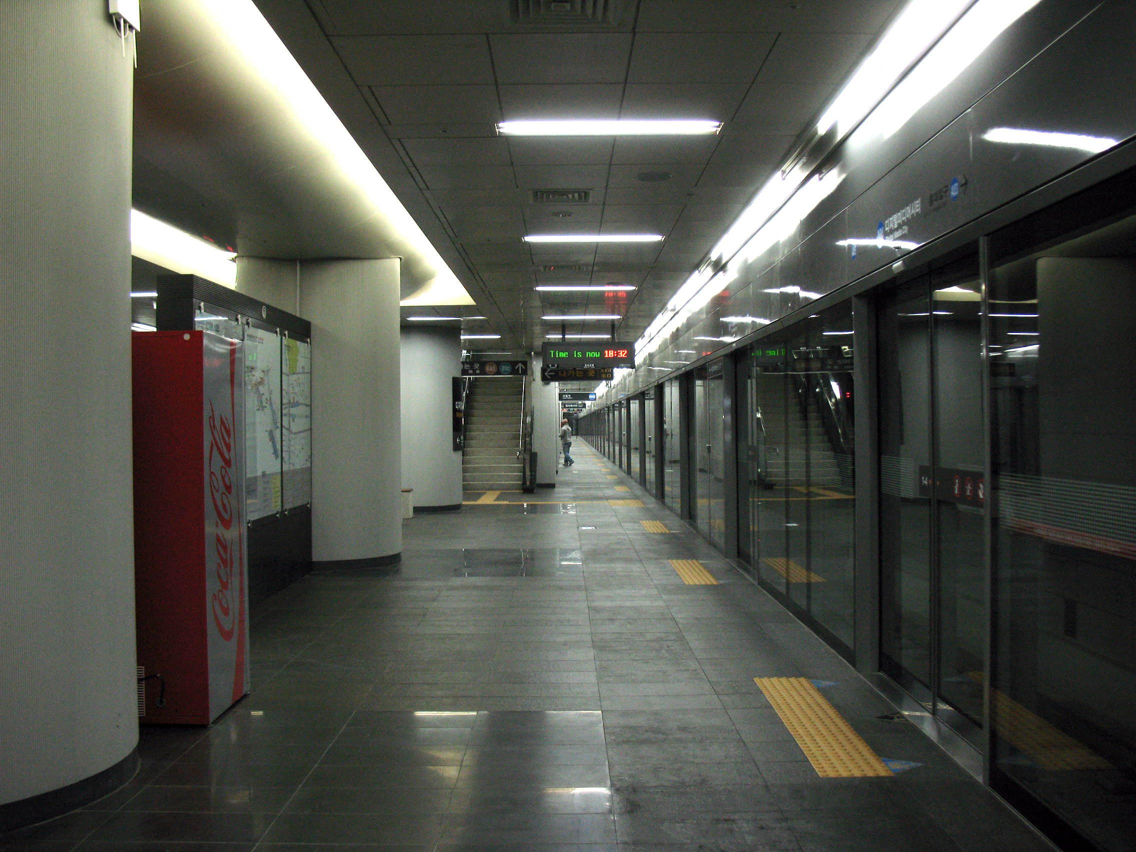 The platform of AREX Digital Media City Station.